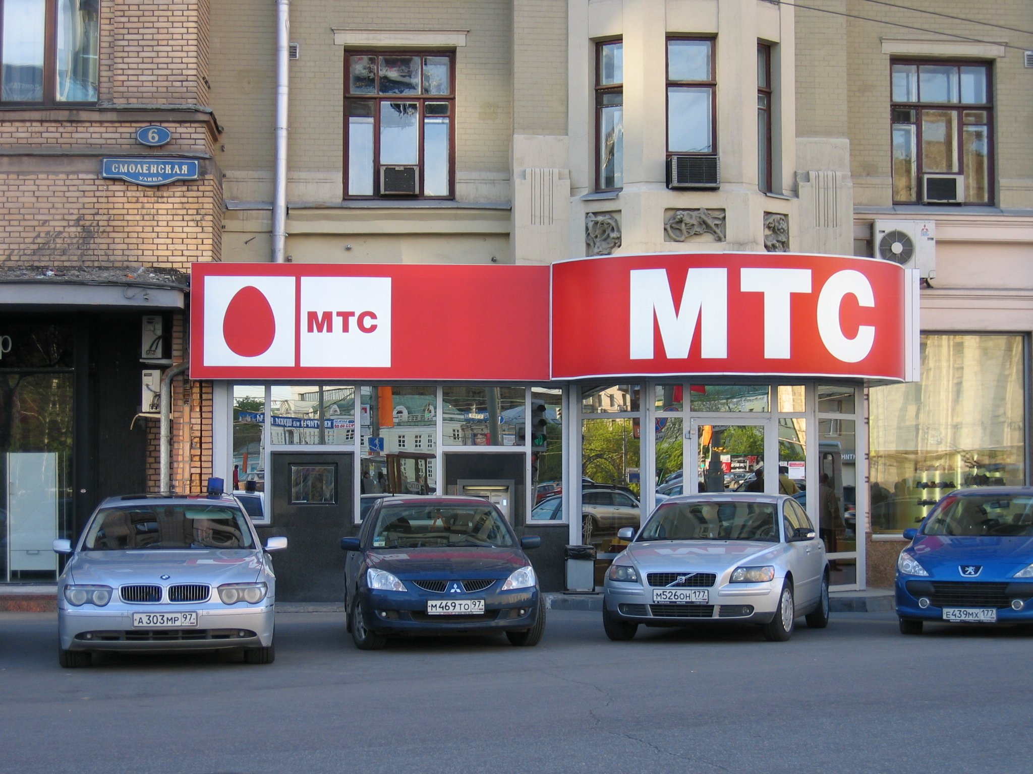 Mobile TeleSystems service shop, Moscow